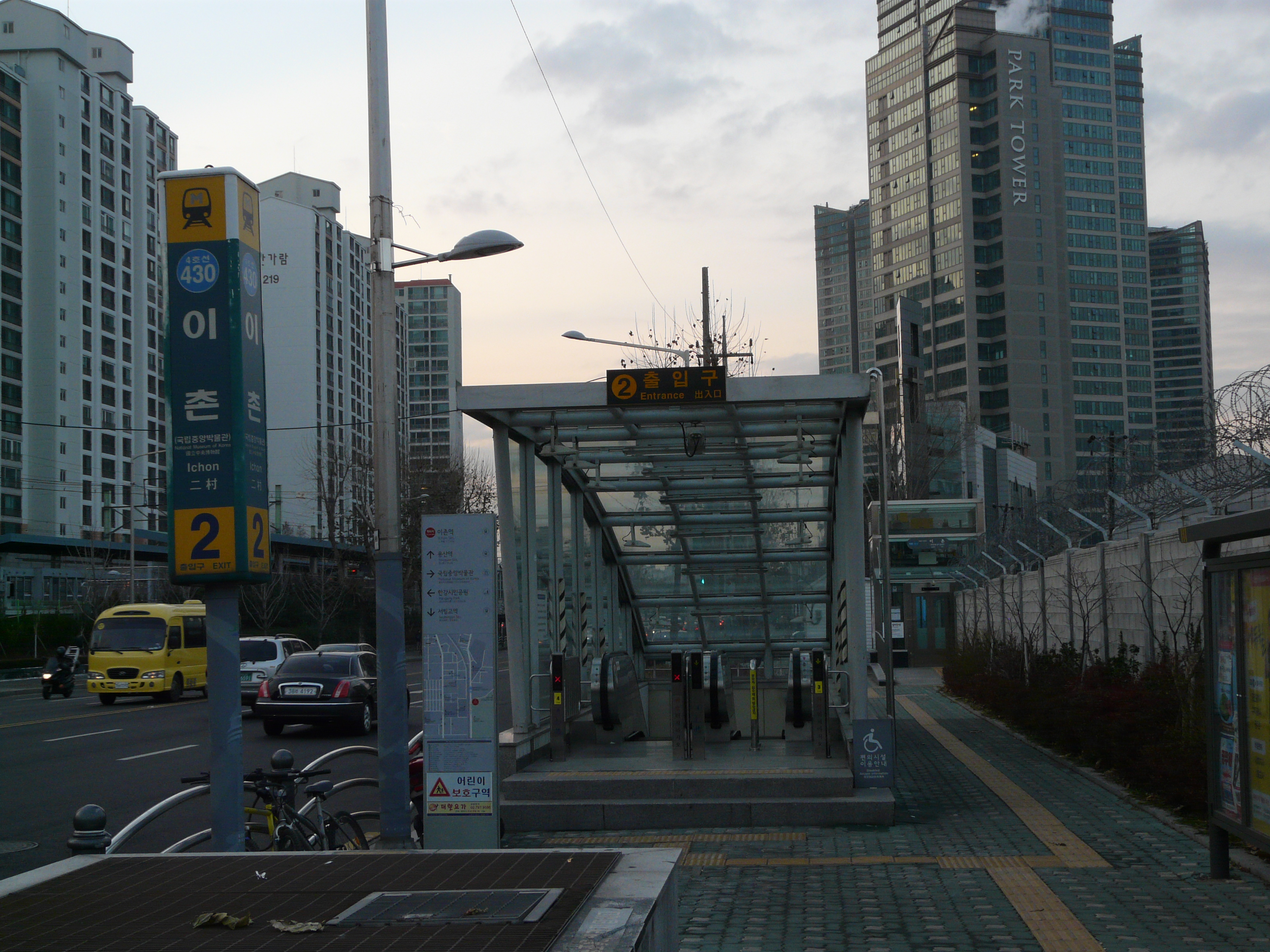 near Korean National Museum